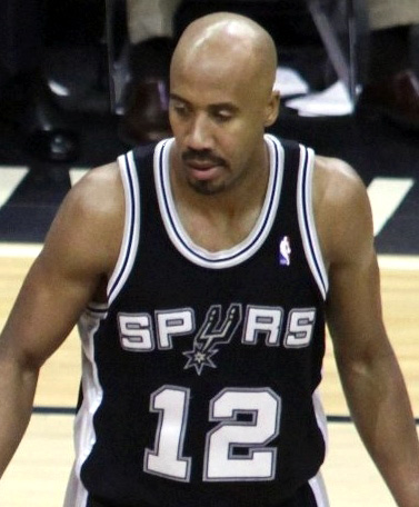 During a free throw attempt, San Antonio Spurs player Tim Duncan (#21), Washington Wizards player Andray Blatche (#32), and Spurs player Bruce Bowen (#12) stand on the side of the free throw zone.